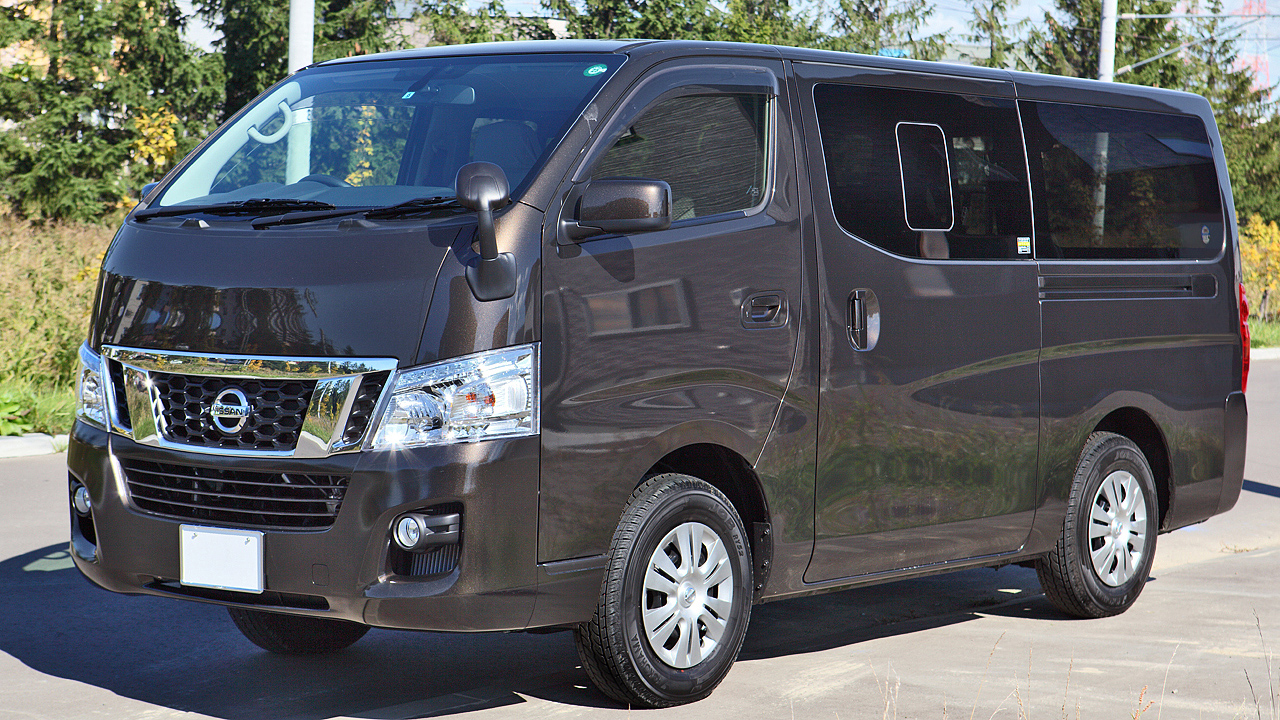 Nissan NV350 Caravan (E26)